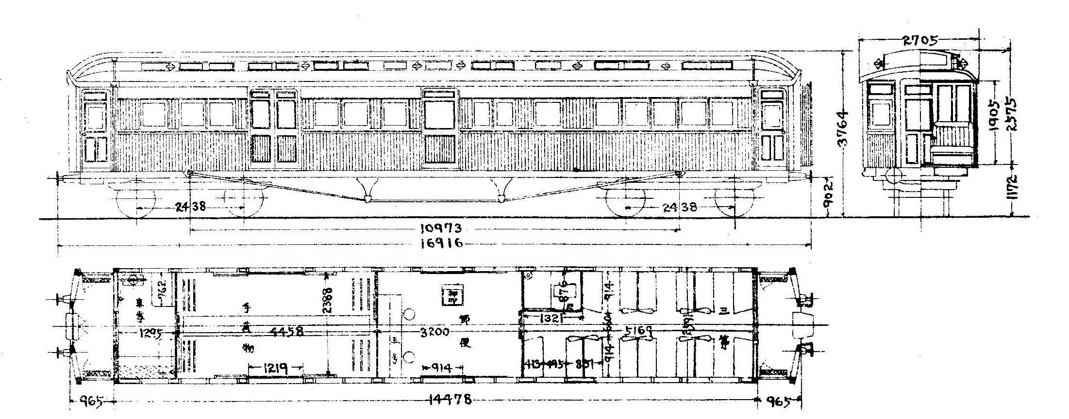 Type drawing of JGR's Hohayuni8255 type passenger car